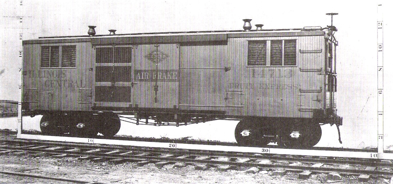 Illinois Central Railroad #14713, a ventilated fruit car dating from 1893. Railroad and Locomotive Historical Society photo scanned from The American Railroad Freight Car p. 298